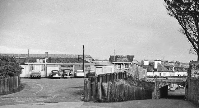 Brixham Station entrance. View southward, buffer-stops on left; ex-GWR terminus of branch from Churston, which was closed 13/5/63